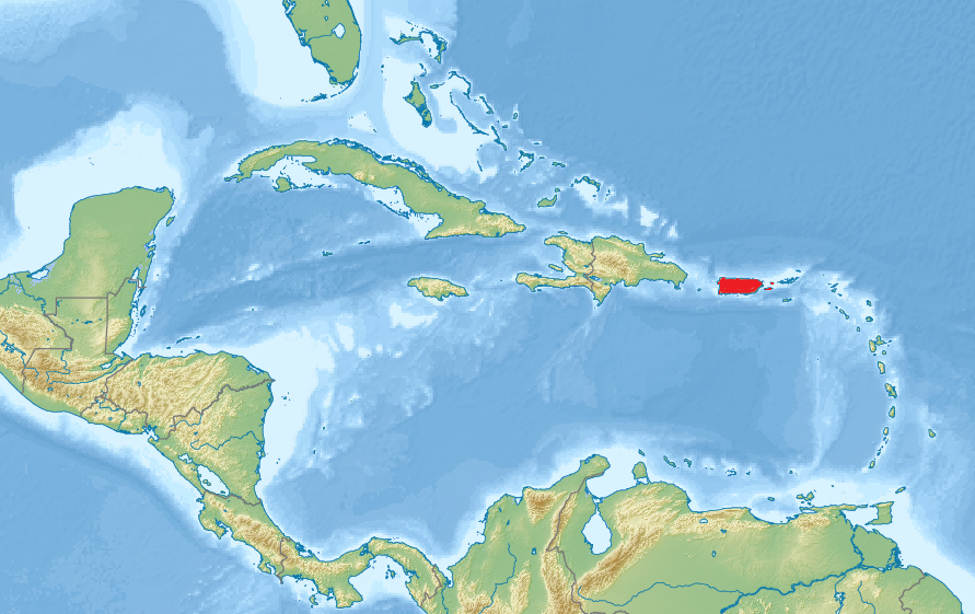 Relief Map of Caribbean with Puerto Rico in red